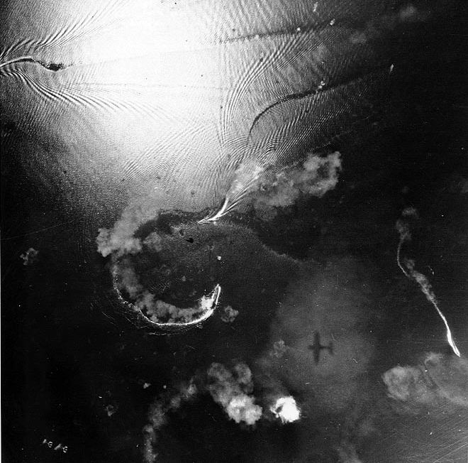 Battle of the Sibuyan Sea, 24 October 1944: The Japanese battleship Yamato (lower center) and other ships maneuver while under attack by U.S. Navy carrier-based aircraft in the Sibuyan Sea. The shadow of one plane is visible on a cloud in lower right center.